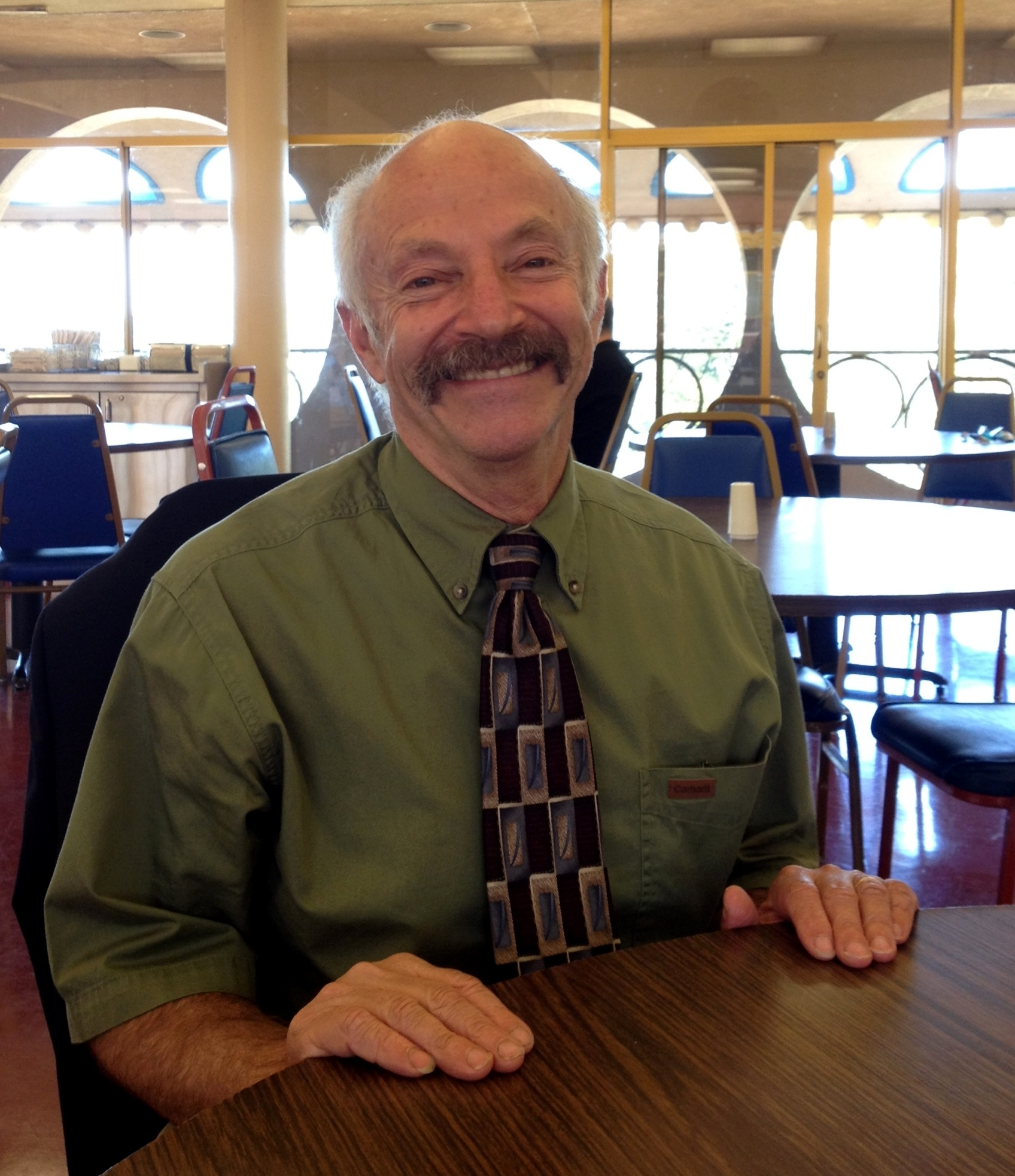 Photo of David Lee Hoffman, 09/10/12